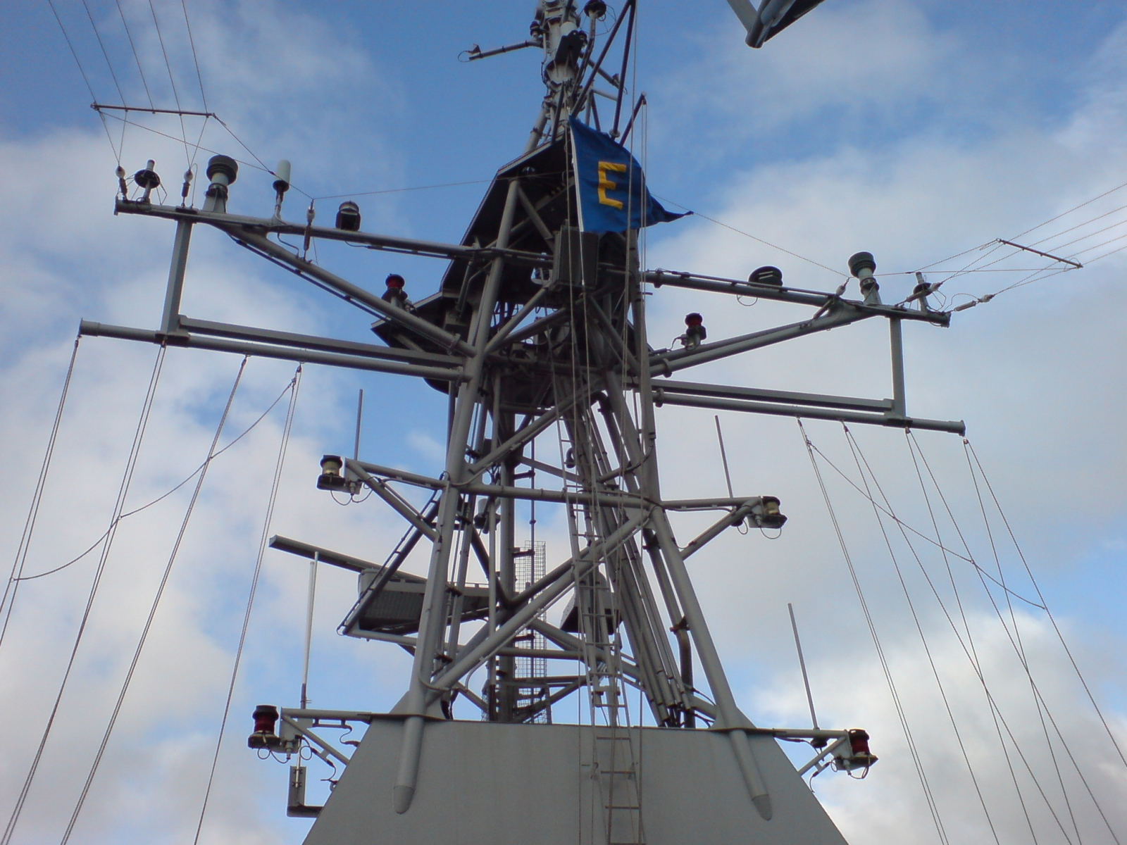 The forward antenna mast / structure (whatever the technical term would be) on HMNZS Te Kaha.